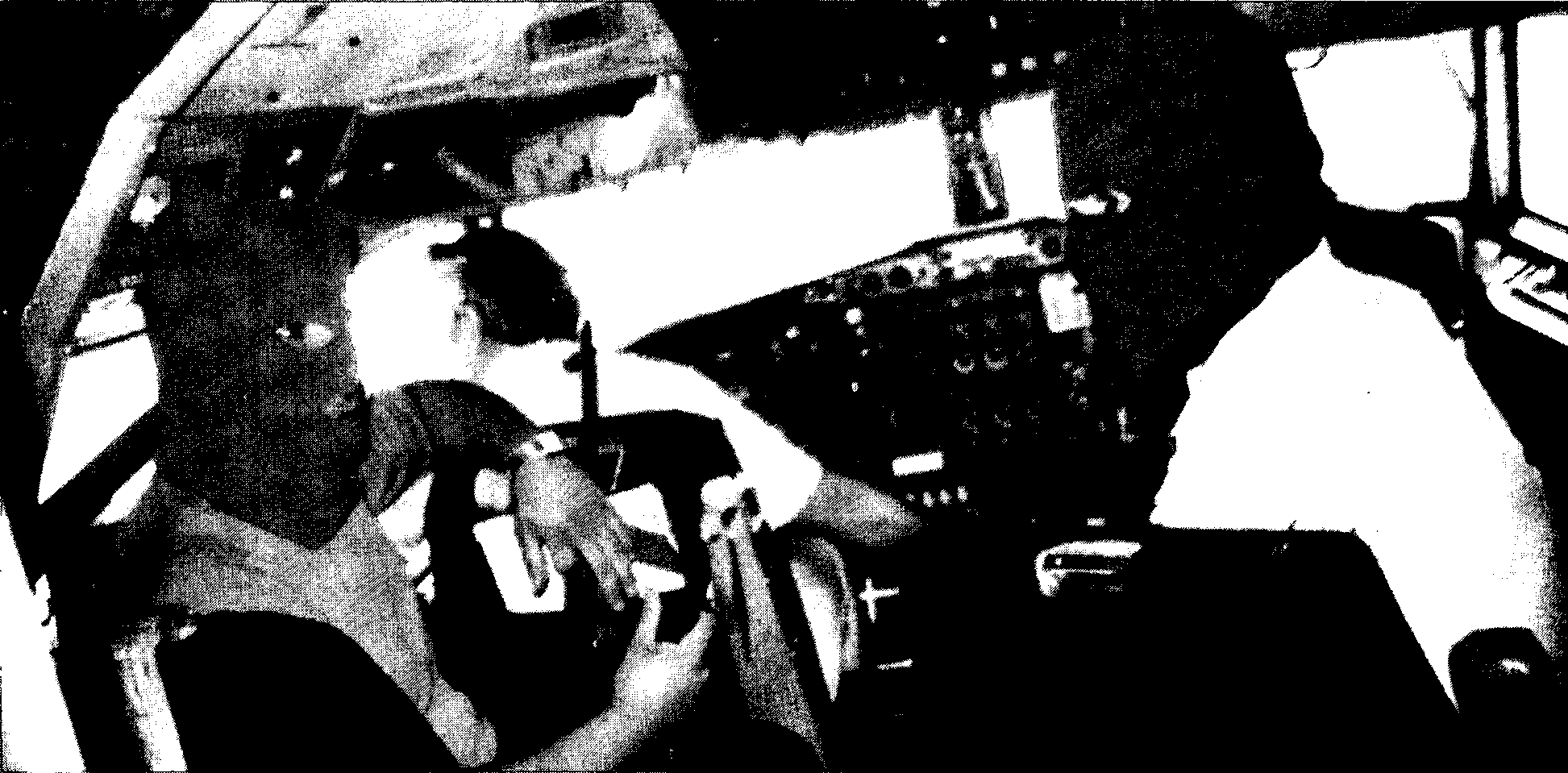 "Hizballah militiamen guarding pilot of TWA aircraft hijacked in June 1985."